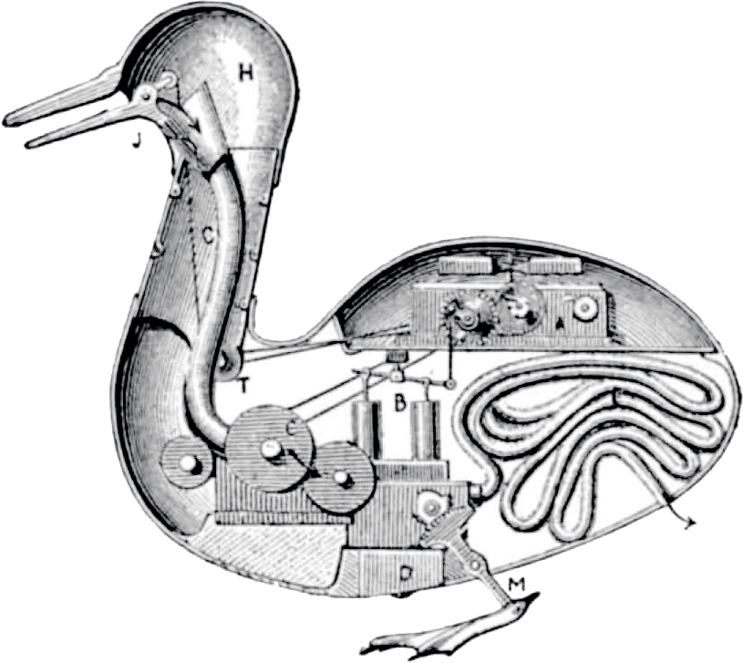 Imaginary rendering of Vaucanson's digesting duck in Scientific American.